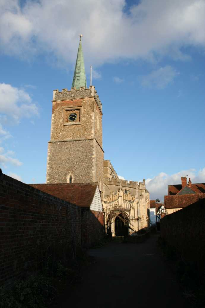 St James' parish church, Nayland, Suffolk, seen from the west